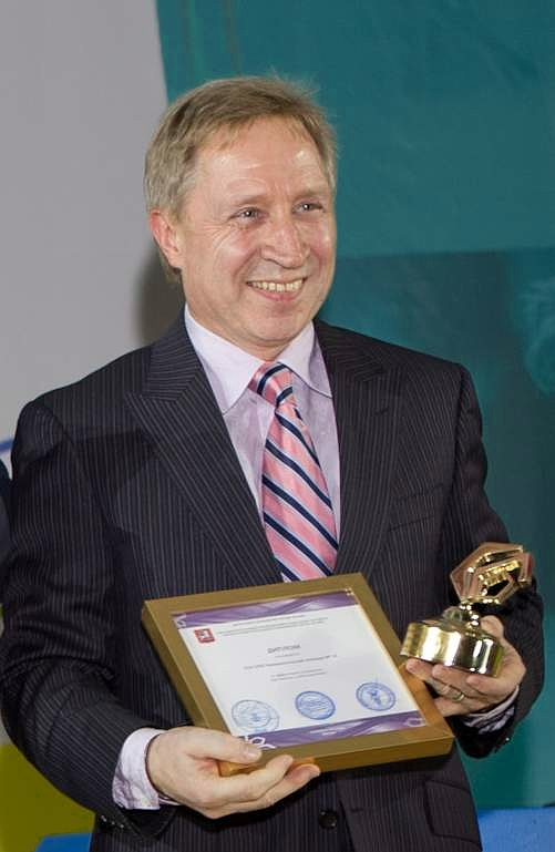 Director Mr. Yuriy Mironenko of The Moscow Technology College no. 14